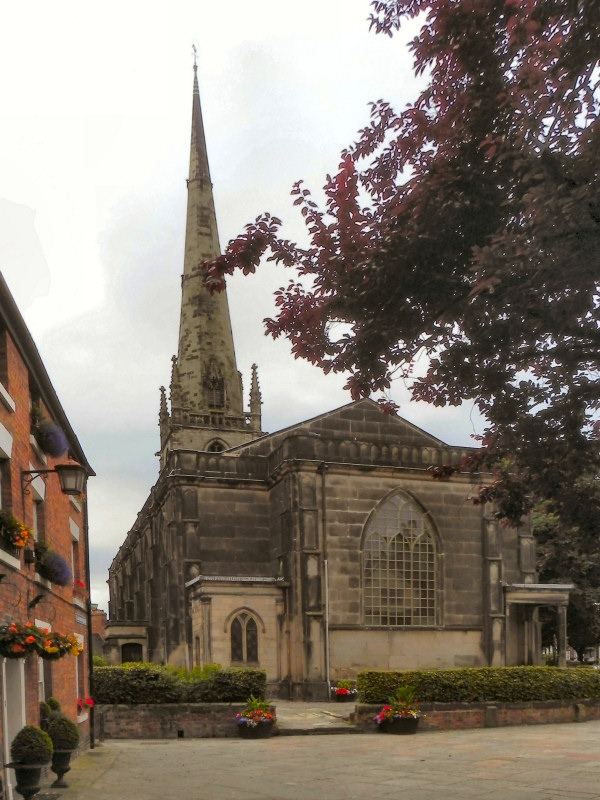 Photograph of St Alkmund's Church, Shrewsbury, Shropshire, England